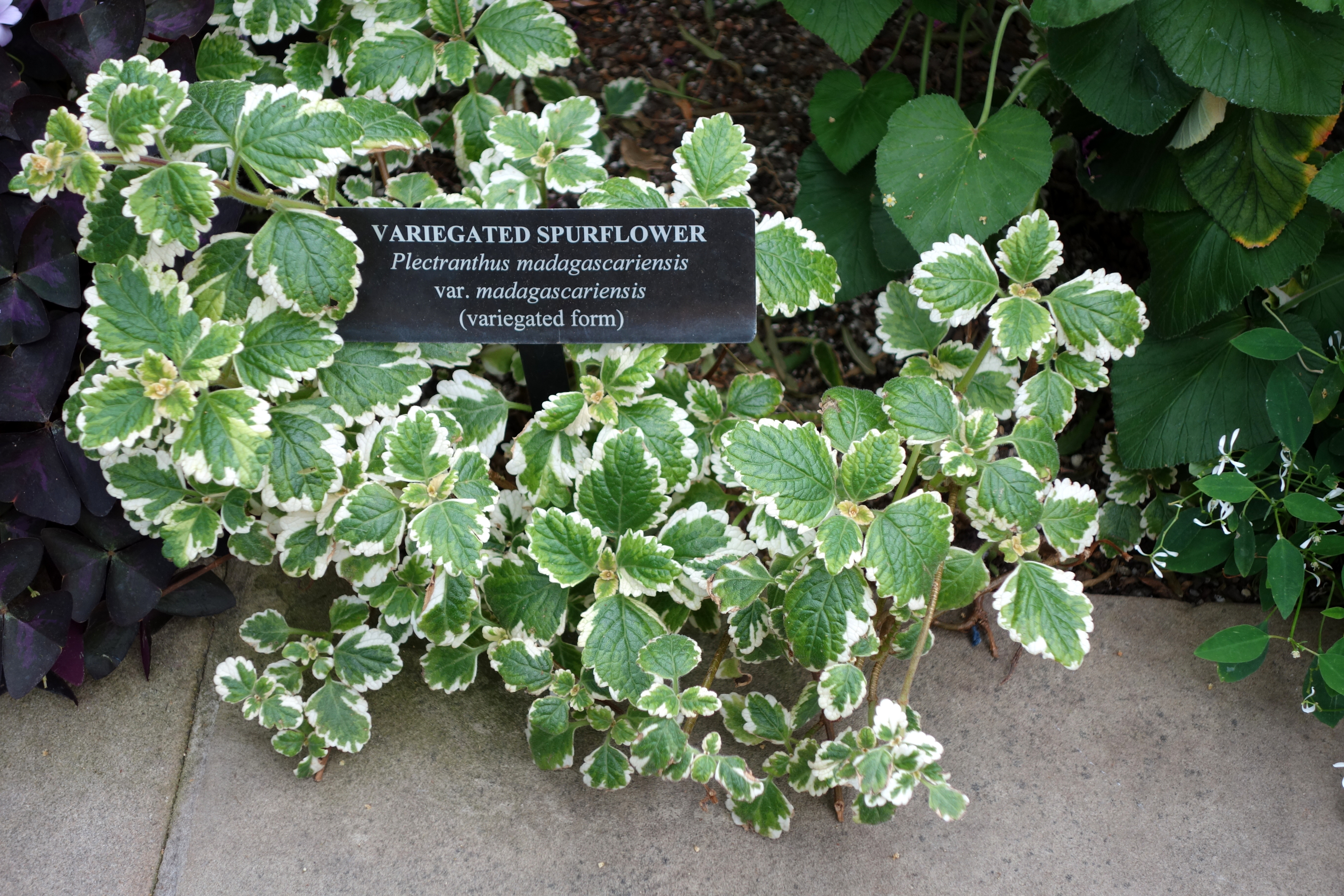 Botanical specimen in Longwood Gardens, 1001 Longwood Rd, Kennett Square, Pennsylvania, USA.